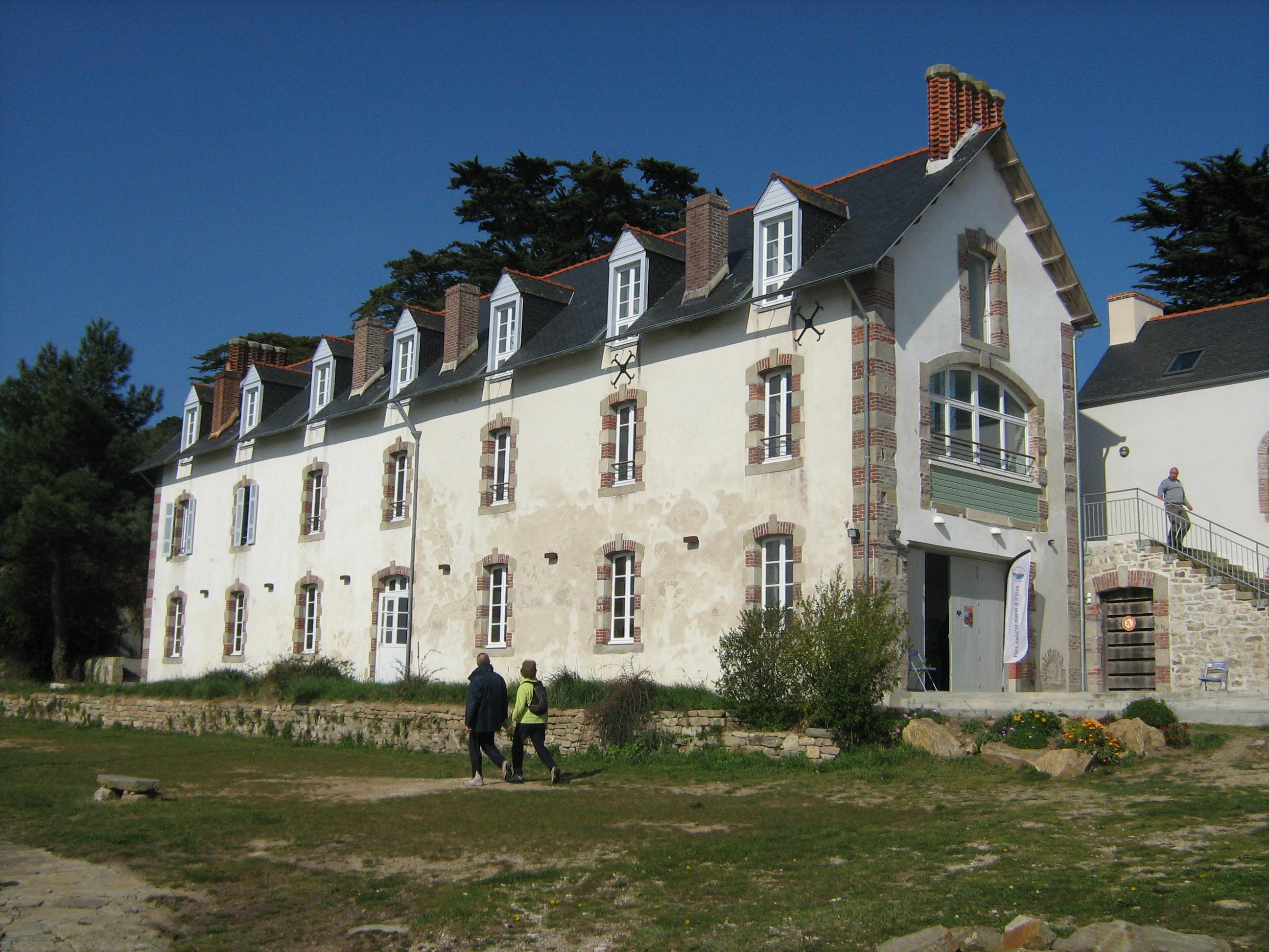 Tristan Island, Douarnenez, France: sardine canning factory, now renovated